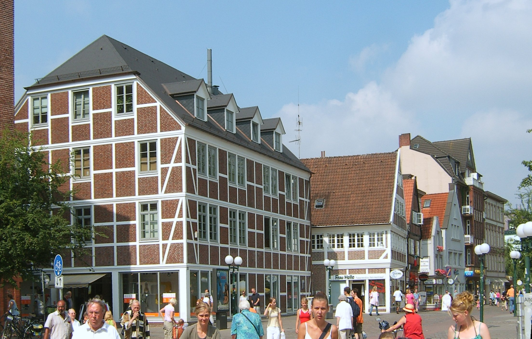 Bildbeschreibung: Hamburg, Bergedorf, Kornmühle This is a photograph of an architectural monument. Fotograf: selbst Datum: 24.07.2006